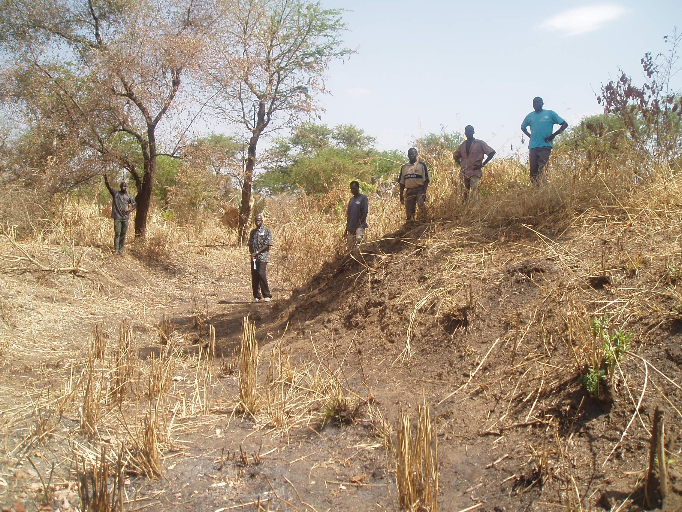 N. Fitzpatrick —Creative Commons